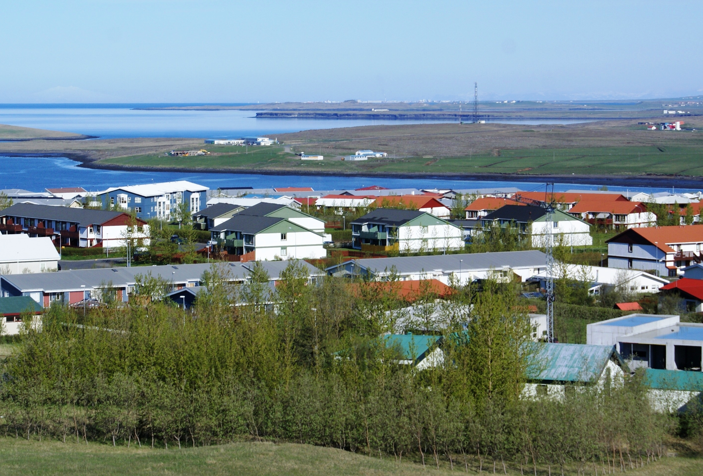 Iceland, impressions on road 41 from Keflavik to Reykjavik